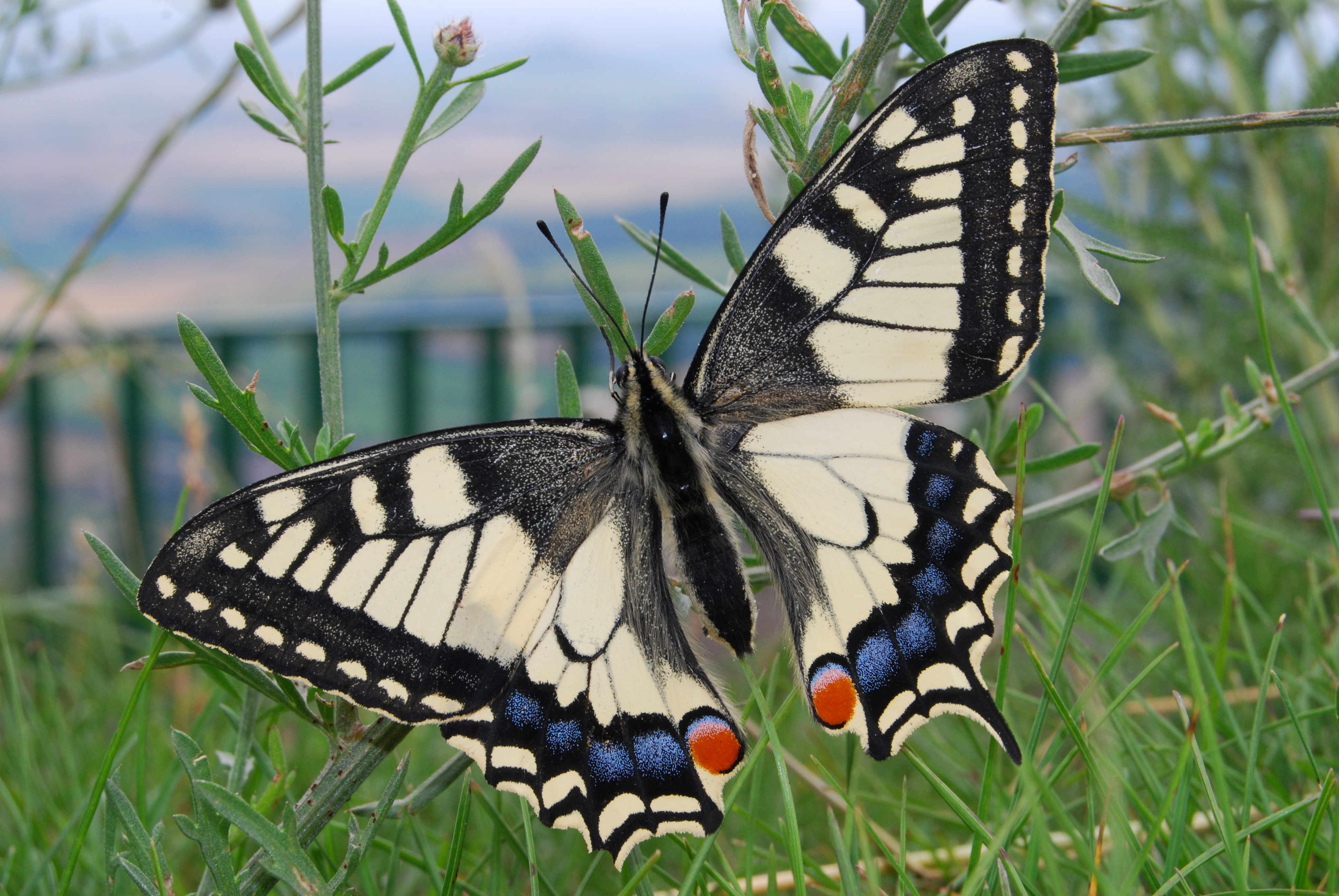 Papilio machaon on Lovoš hill, 2009-07-12